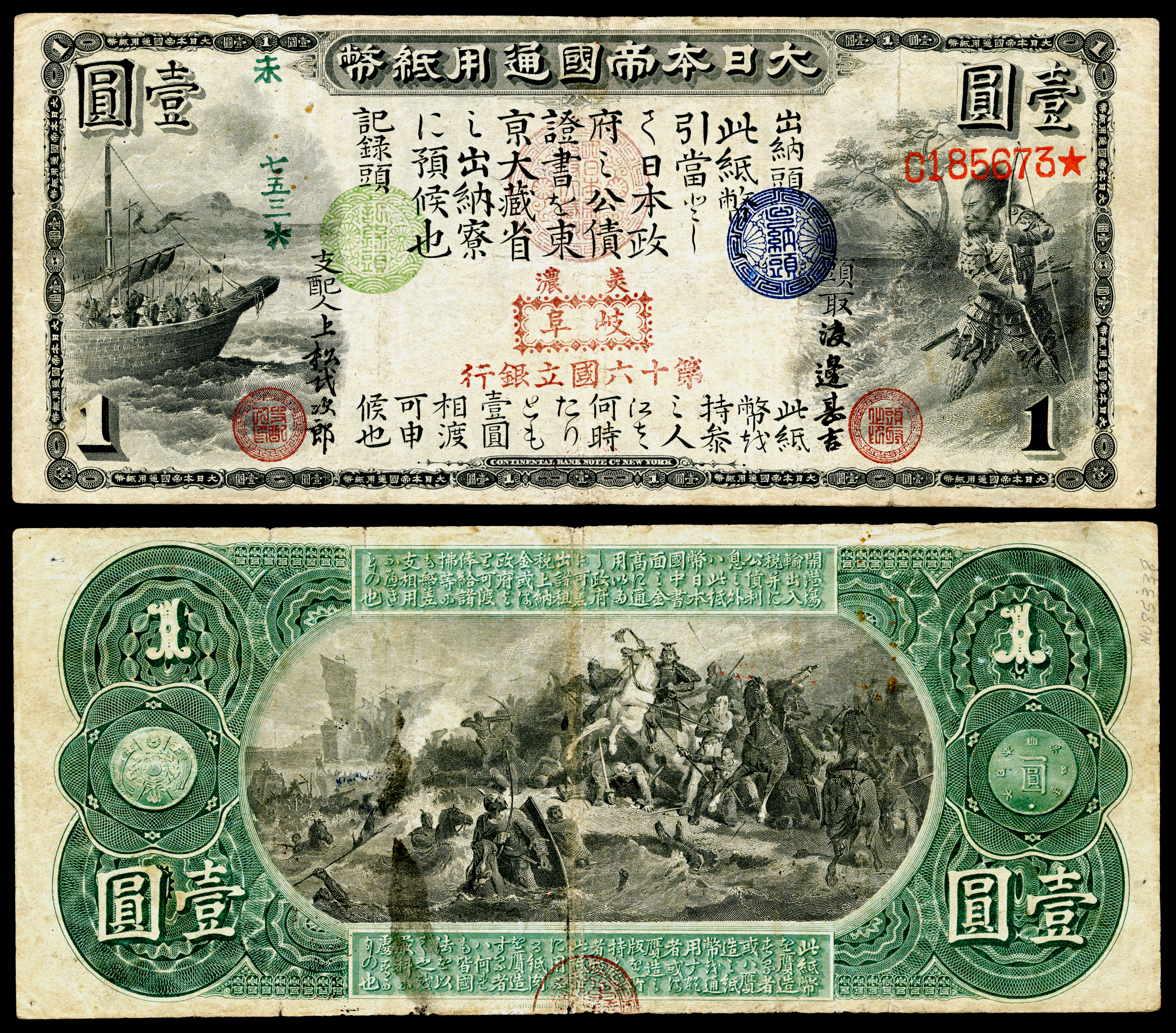 Japanese Constitutional Monarchy, One Yen (1873). Second year of issue for Yen banknotes.